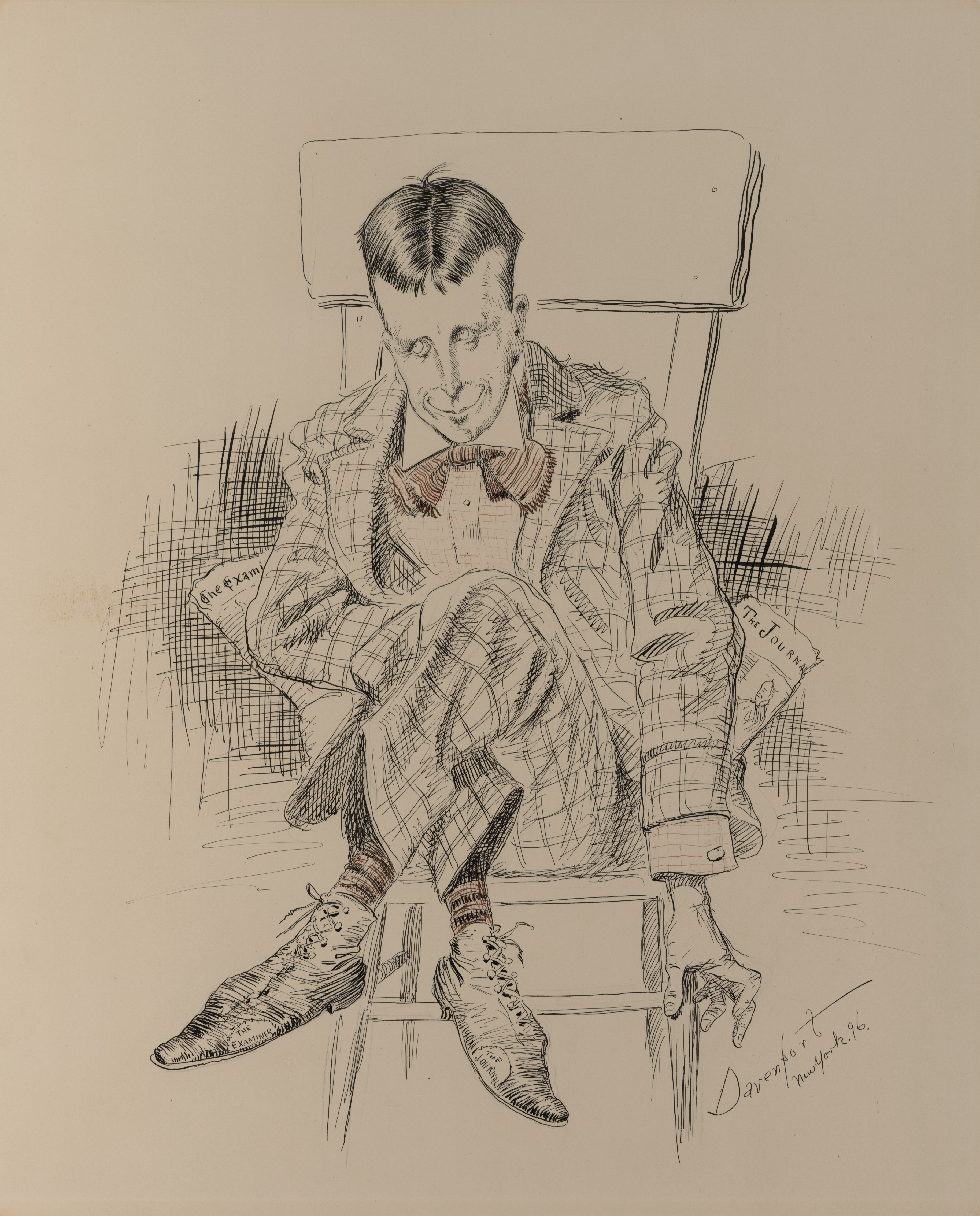 Caricature of William Randolph Hearst, by Homer Davenport. India ink and red ink over graphite underdrawing. 1896.